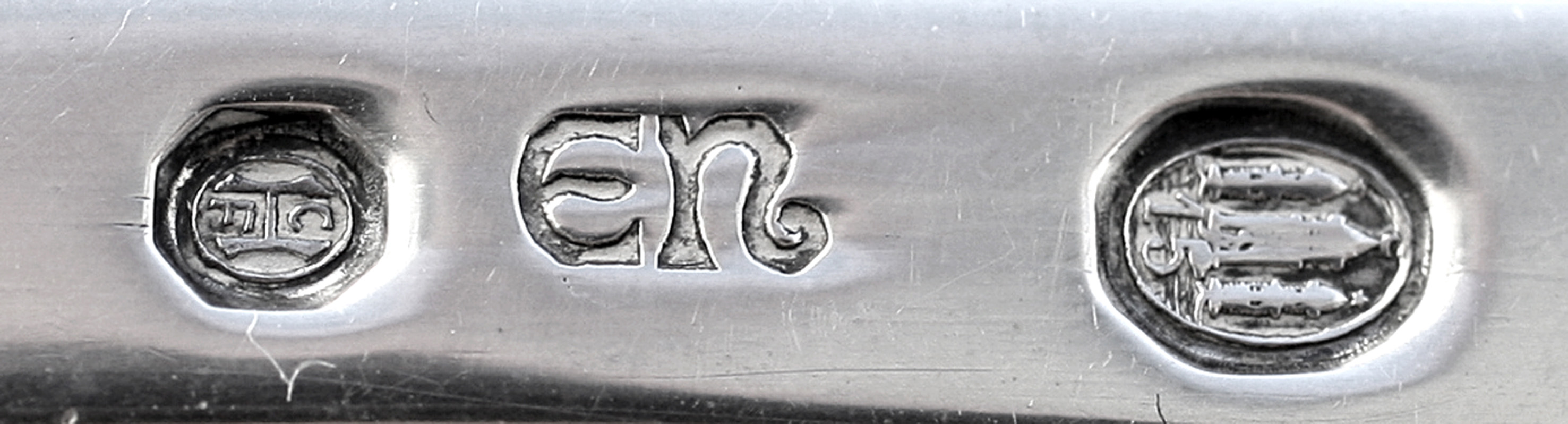 Hallmark of Danish silversmith Evald Nielsen